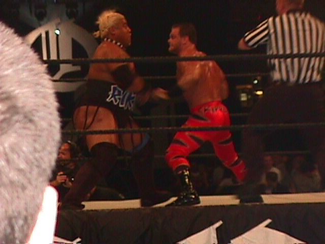 Rikishi vs. Chris Benoit at the WWF King of the Ring at the Fleet Center in Boston, MA in 2000 - WWE.